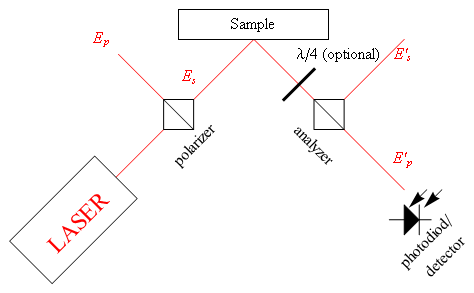 Sketch of a simple setup to measure the Magneto-optic Kerr effect